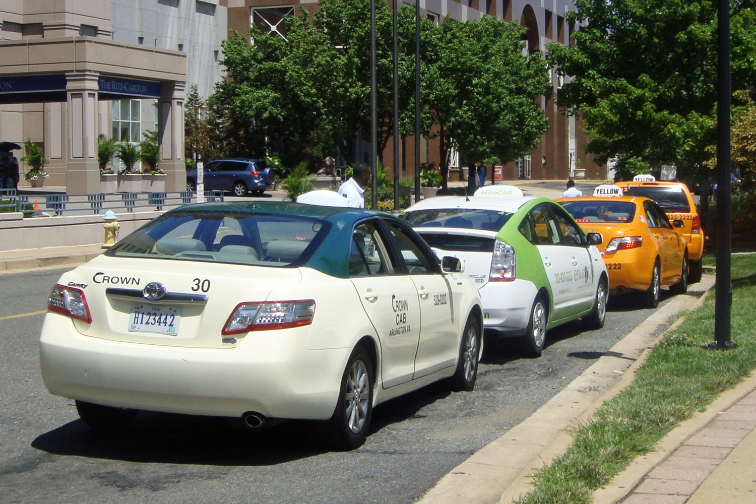 Hybrid taxis from several taxi cab companies in Pentagon City, Arlington, Virginia